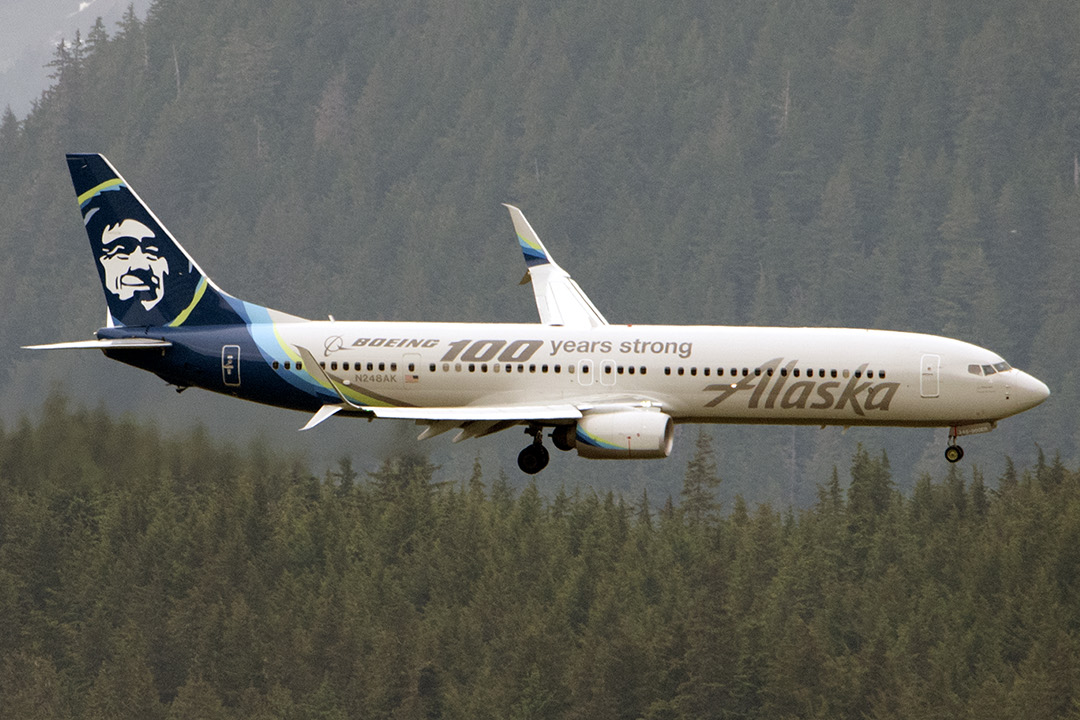 Boeing100 years strong Alaska Airlines